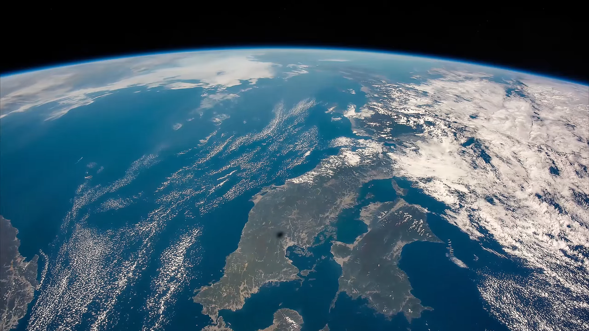 Chugoku region, Shikoku, Japan, seen from the International Space Station (17 October 2015)